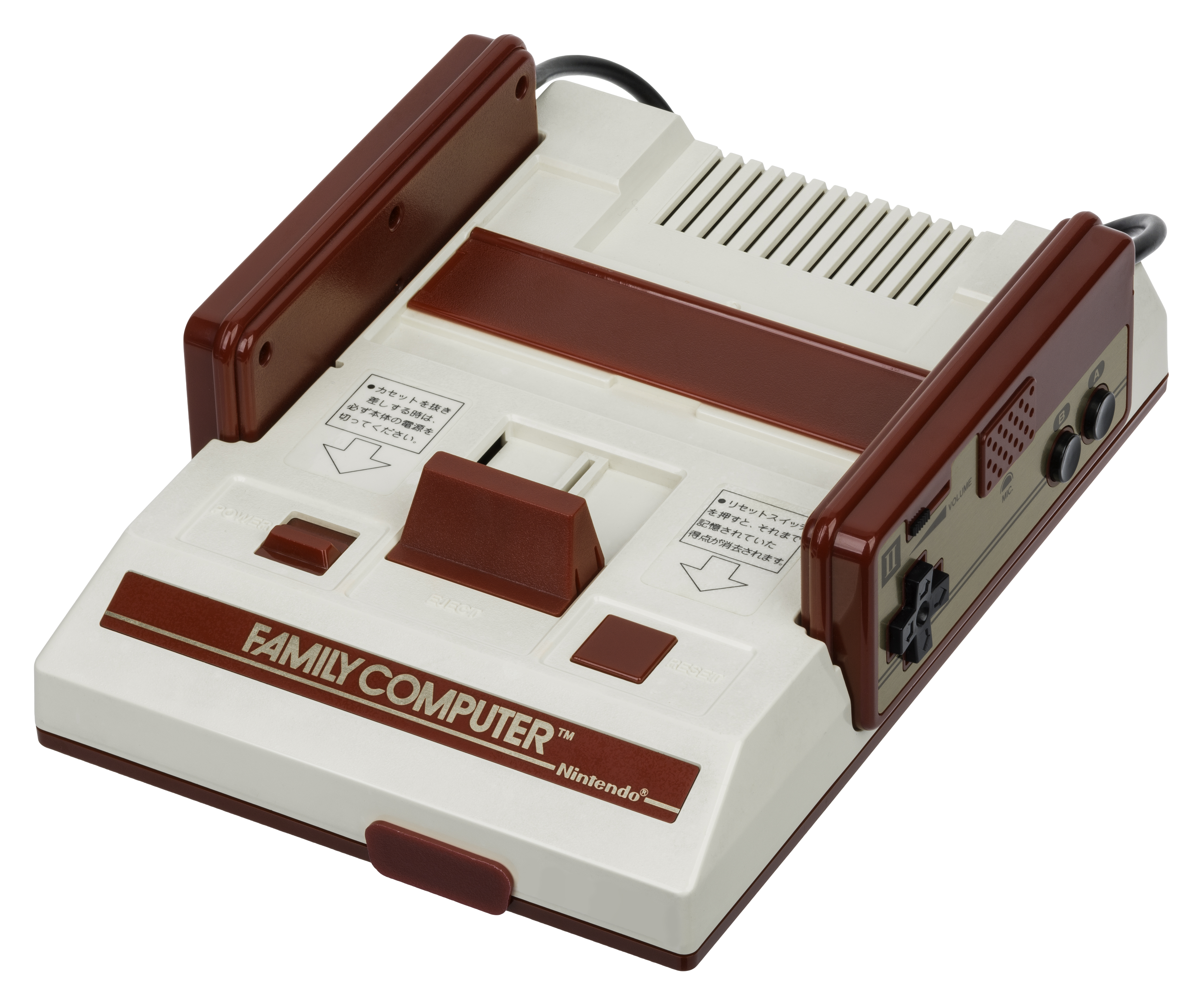 The motherboard for the Nintendo Famicom video game console, model HVC-002. This is Nintendo's first game console and was released in 1983, where it became the most successful console of its generation. The Famicom was later revised and released worldwide as the Nintendo Entertainment System (NES). It features hard-wired controllers (including one that contains a microphone) and an accessory port. This model is also only capable of displaying RF video out.